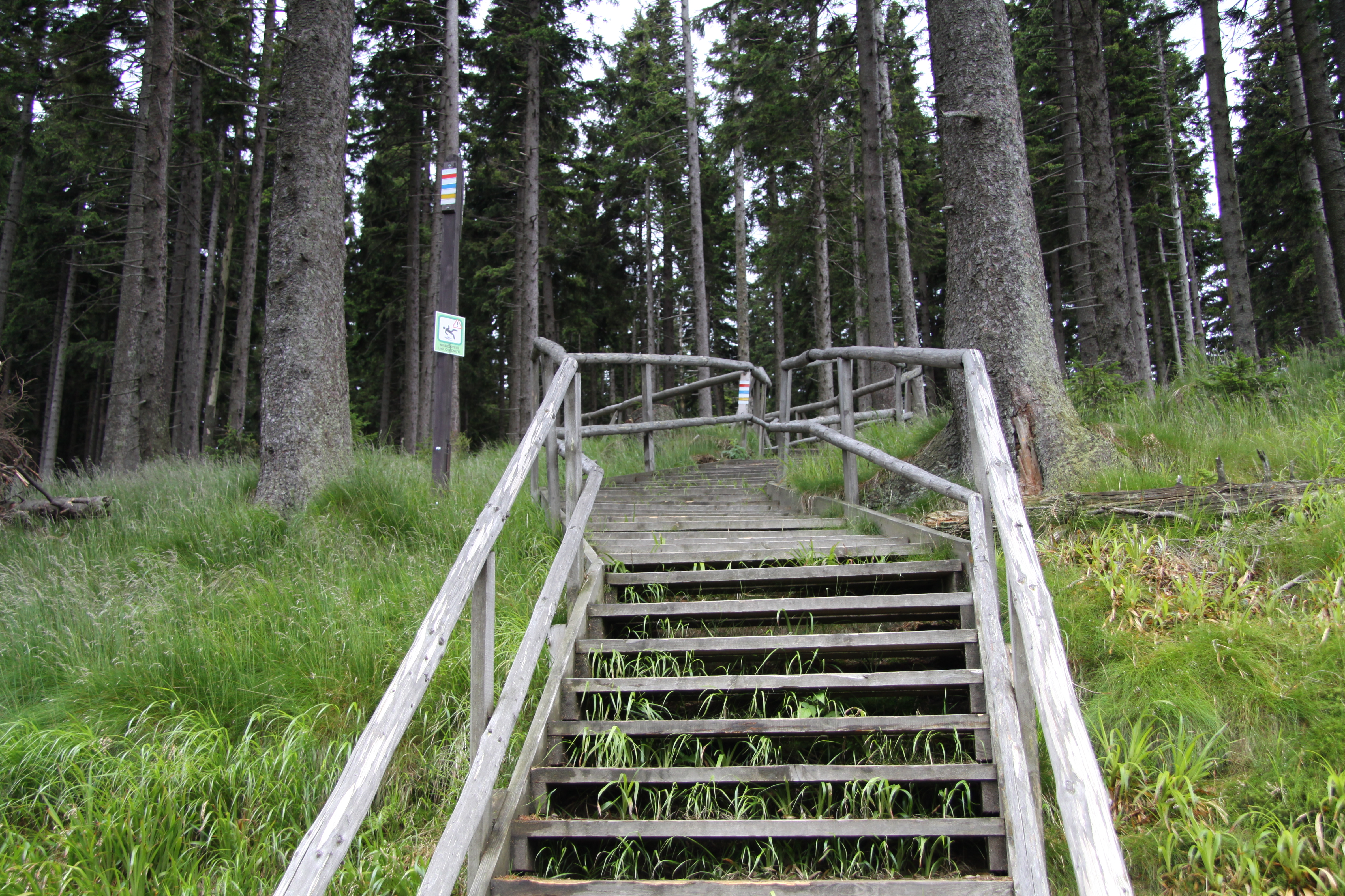 National nature reserve Boubínský prales, Prachatice District, Czech Republic